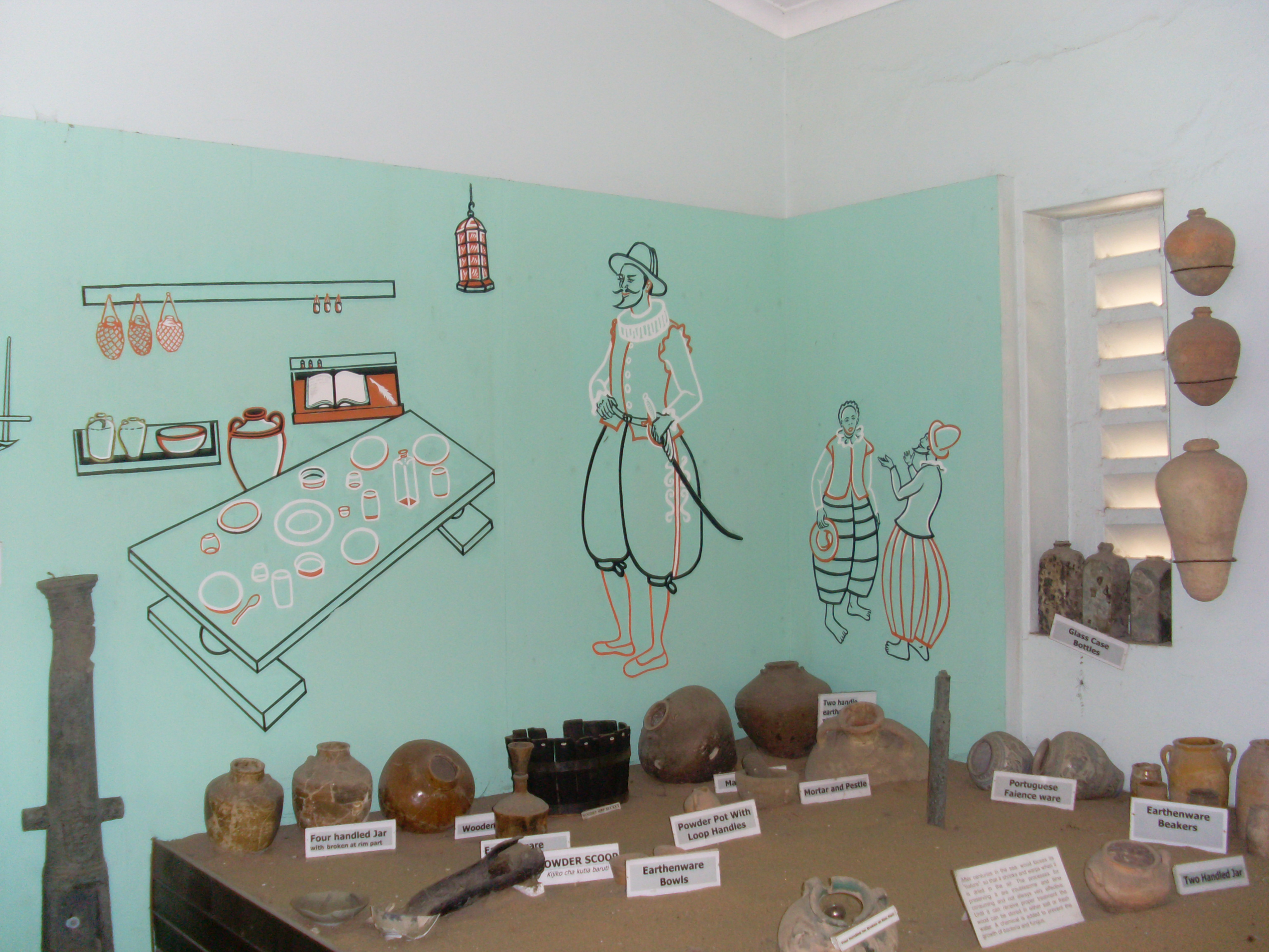 Artwork and artefacts inside the Fort